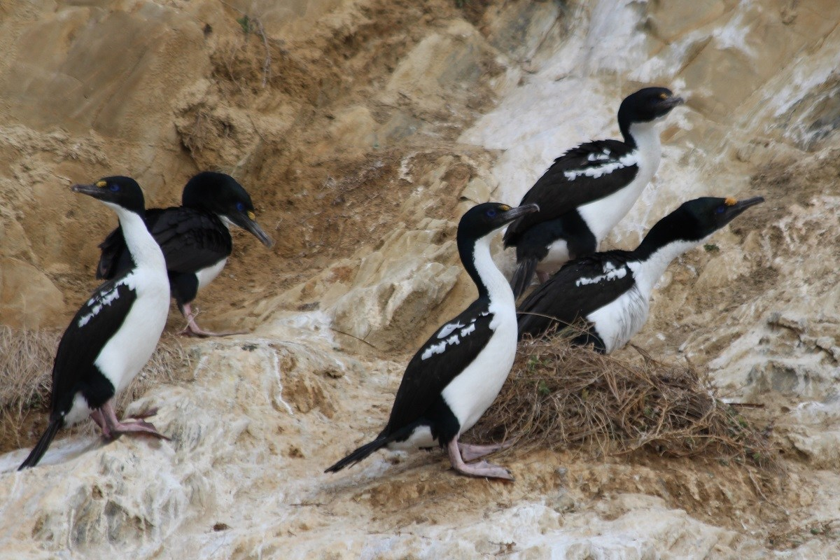 New Zealand King Shag, (Leucocarbo carunculatus) on Blumine Island, Marlborough Sounds, New Zealand in 2016